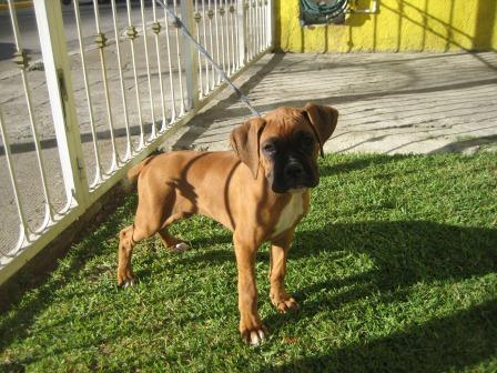 boxer tawny puppy 2 months